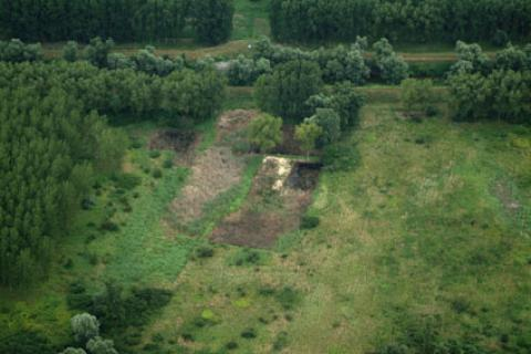 Sióagárd, Hungary, aerialphotography